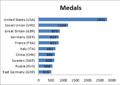 Top 10 National Olympic Committees with Medals.